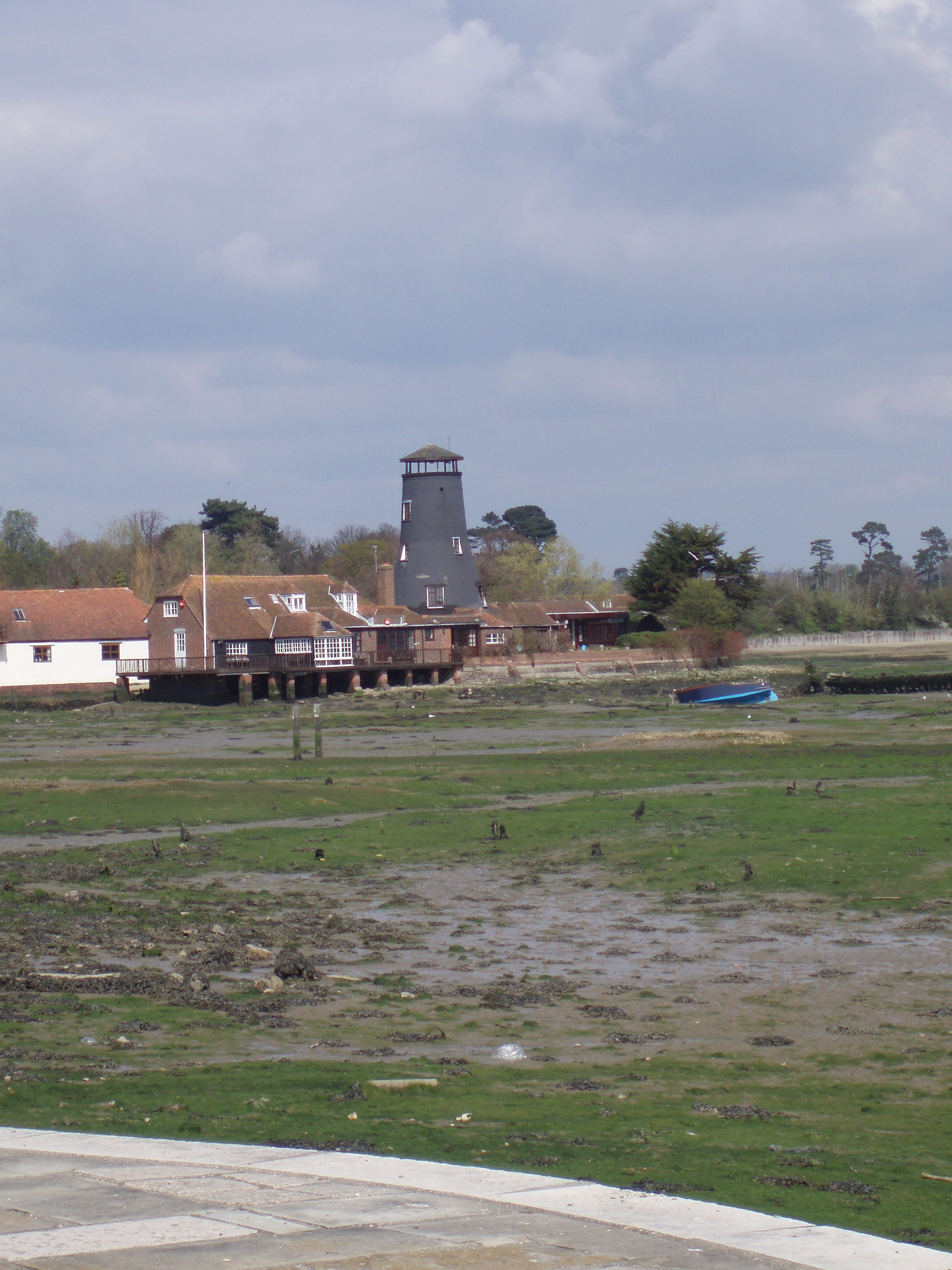 Photo taken by M.Eyre 10th April 2007